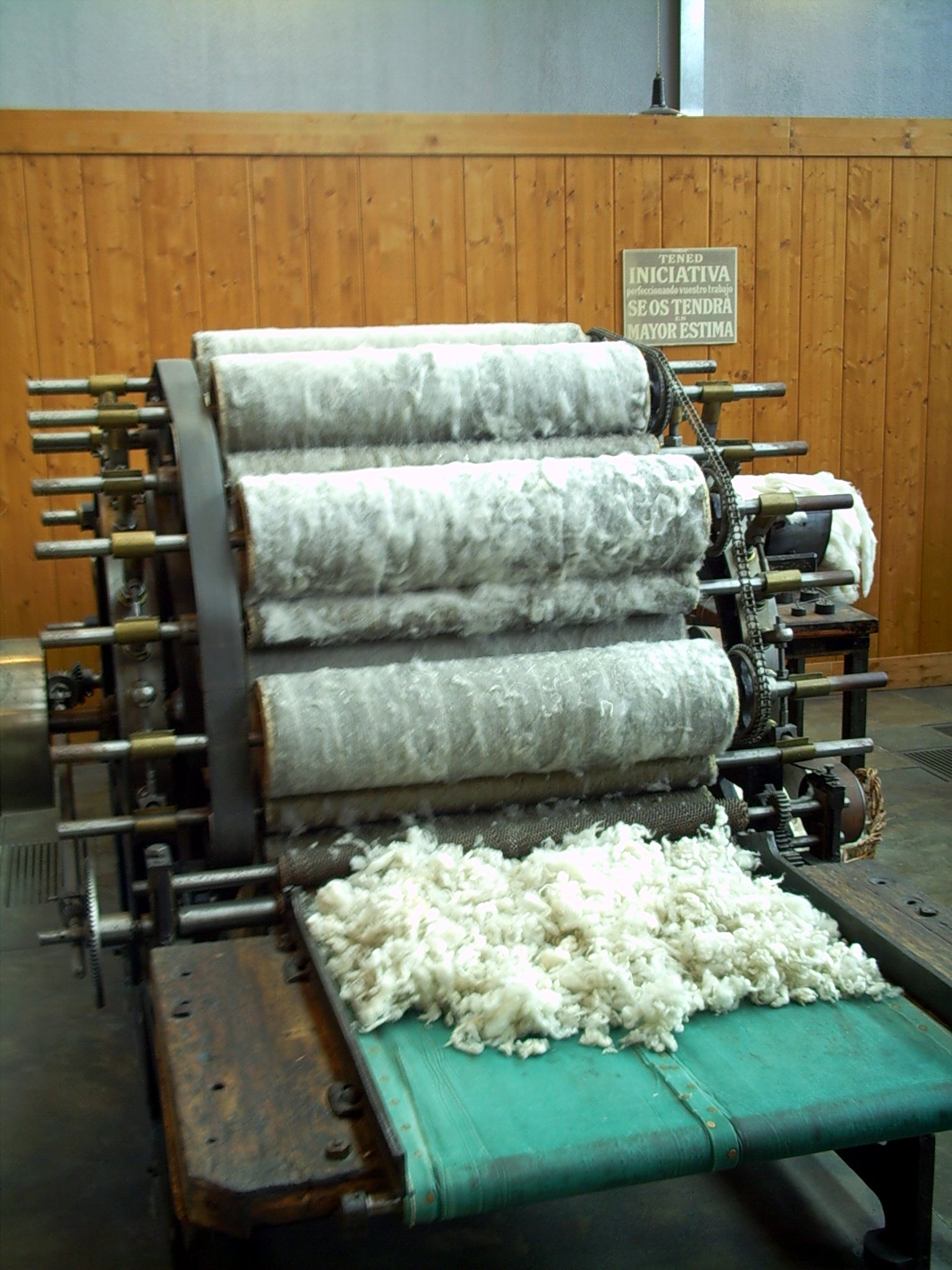 Textile machine, at the mNATECT, Terrassa, (Catalunya).